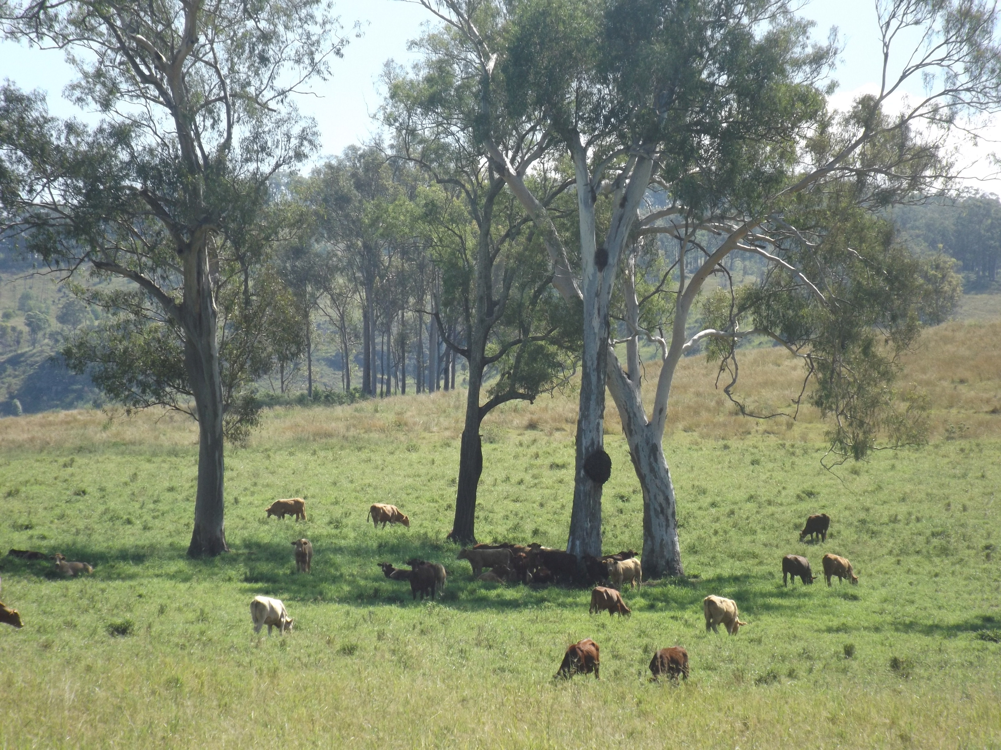 Photo of cattle in paddocks along The Hollows Road at Josephville, Scenic Rim Region, Queensland, Australia.